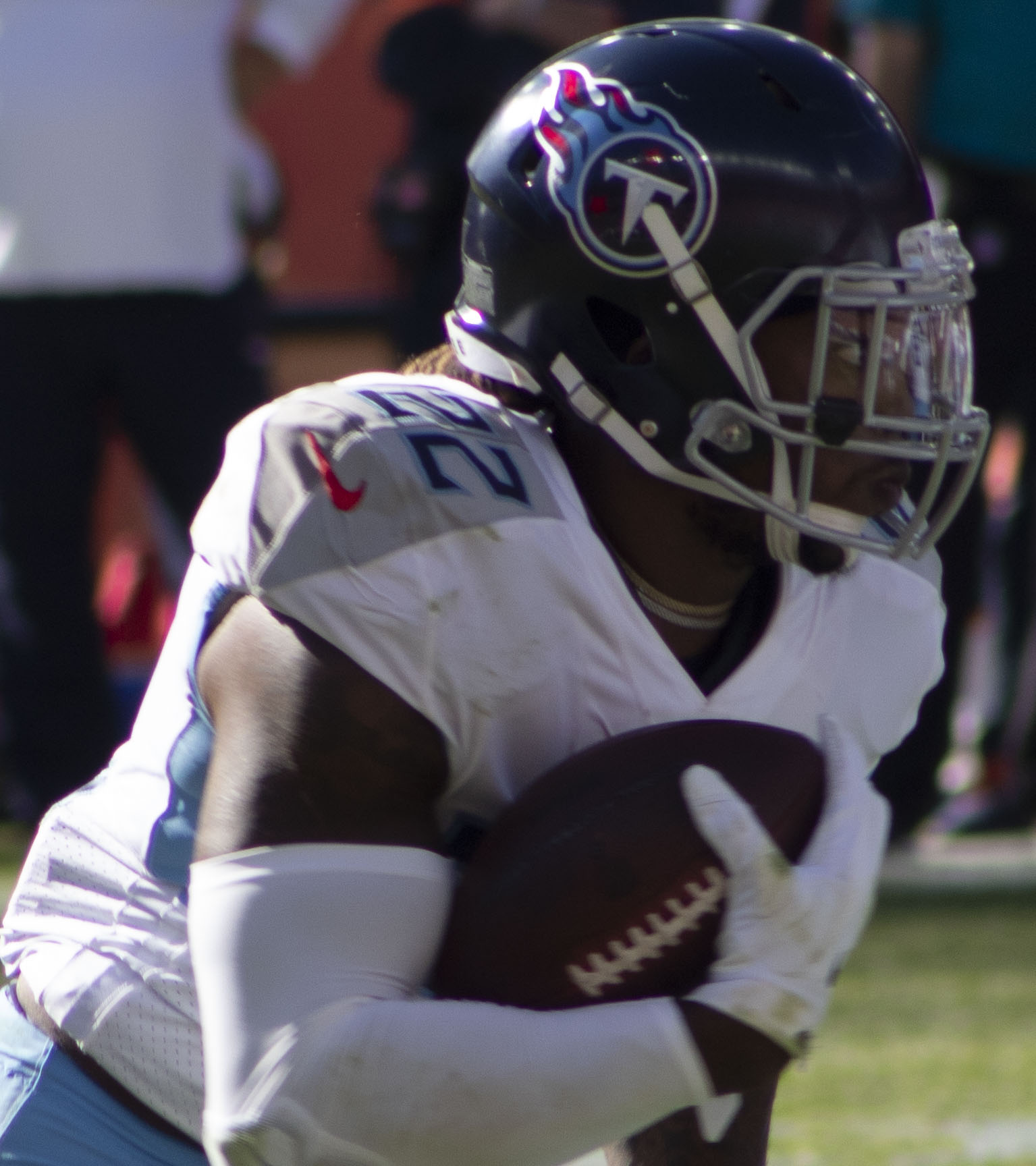 Henry with the Titans on October 13, 2019